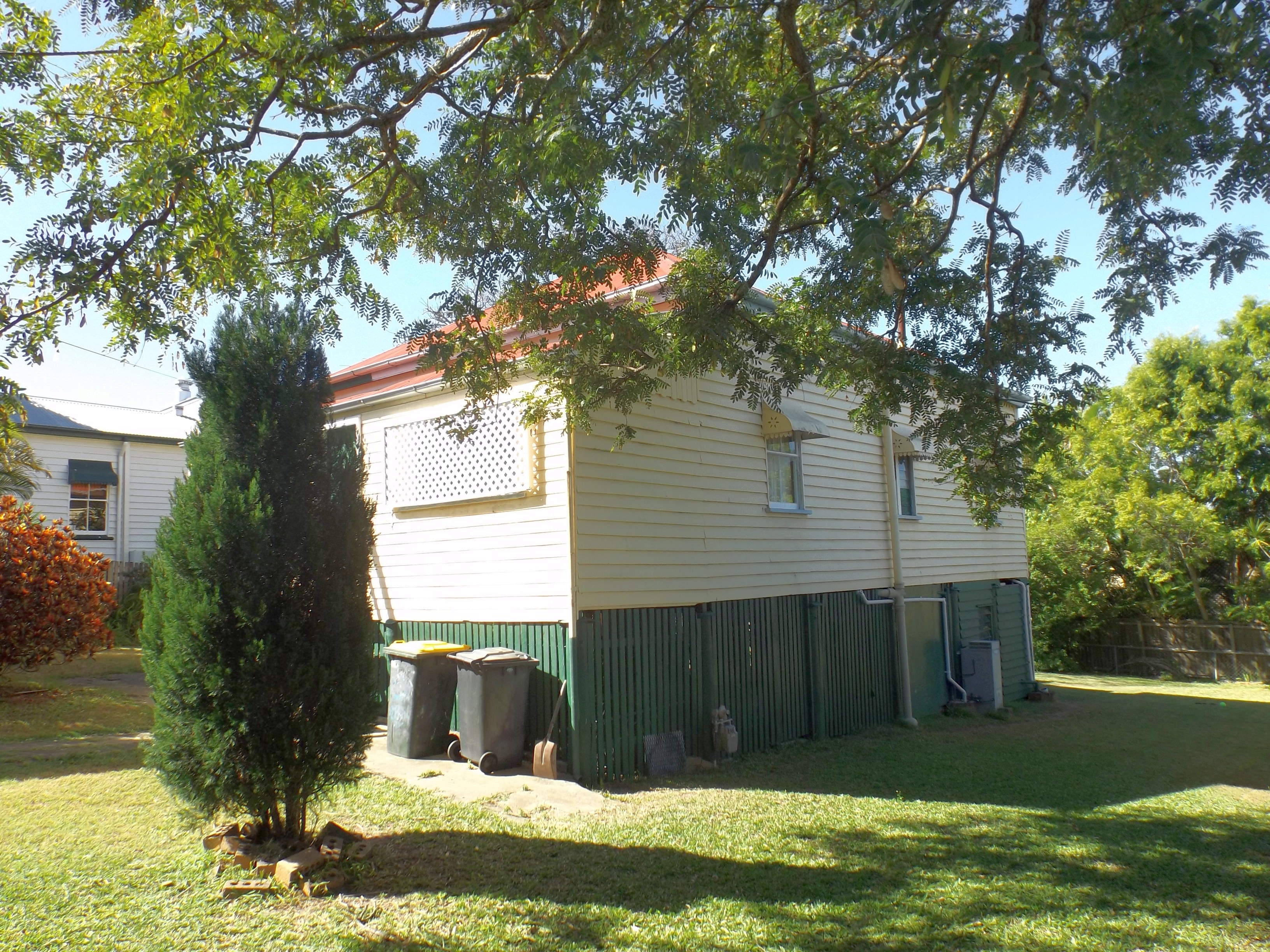 Photo of the garden and Workers' Dwelling No.1 at Nundah, Brisbane, Queensland, Australia.